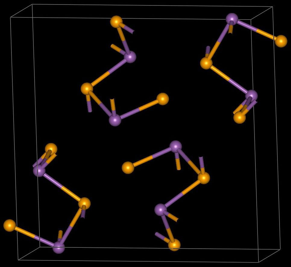 SbSe3 structure Journal = ZEITSCHRIFT FUER KRISTALLOGRAPHIE, Year = 1985, Volume = 171, Page = 261-268, Title = The crystal structure of antimony selenide, Sb2Se3, Authors = Voutsas G.P., Papazoglou A.G., Rentzeperis P.J., Siapkas D.